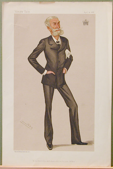 Statesmen No.541: Caricature of The Earl Cathcart (Alan Frederick Cathcart, 3rd Earl Cathcart)[1]. Caption reads: "He has devoted his life to husbandry and has nine children"